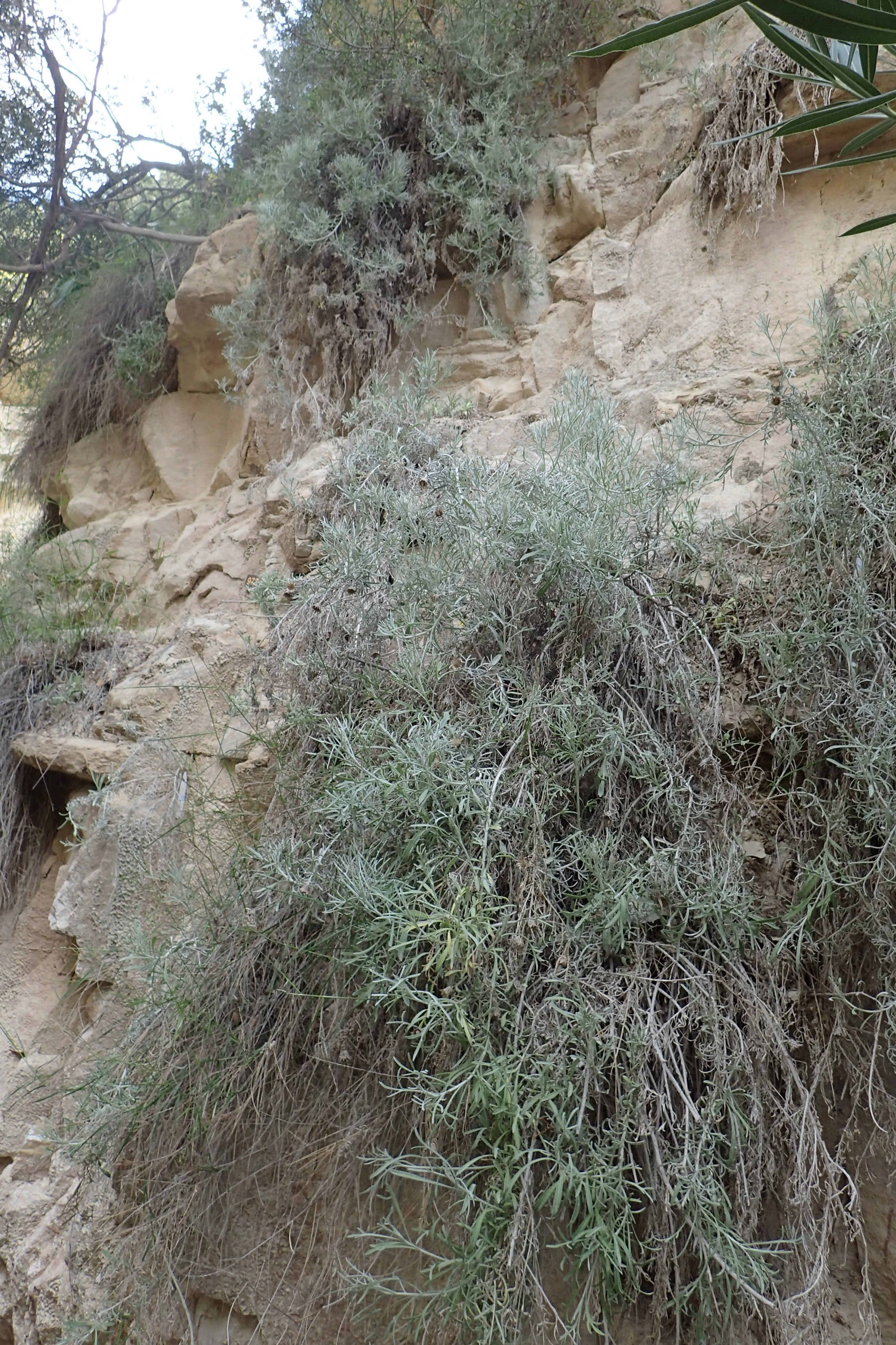 Cenraurea akamantis in Avakas Gorge, Cyprus